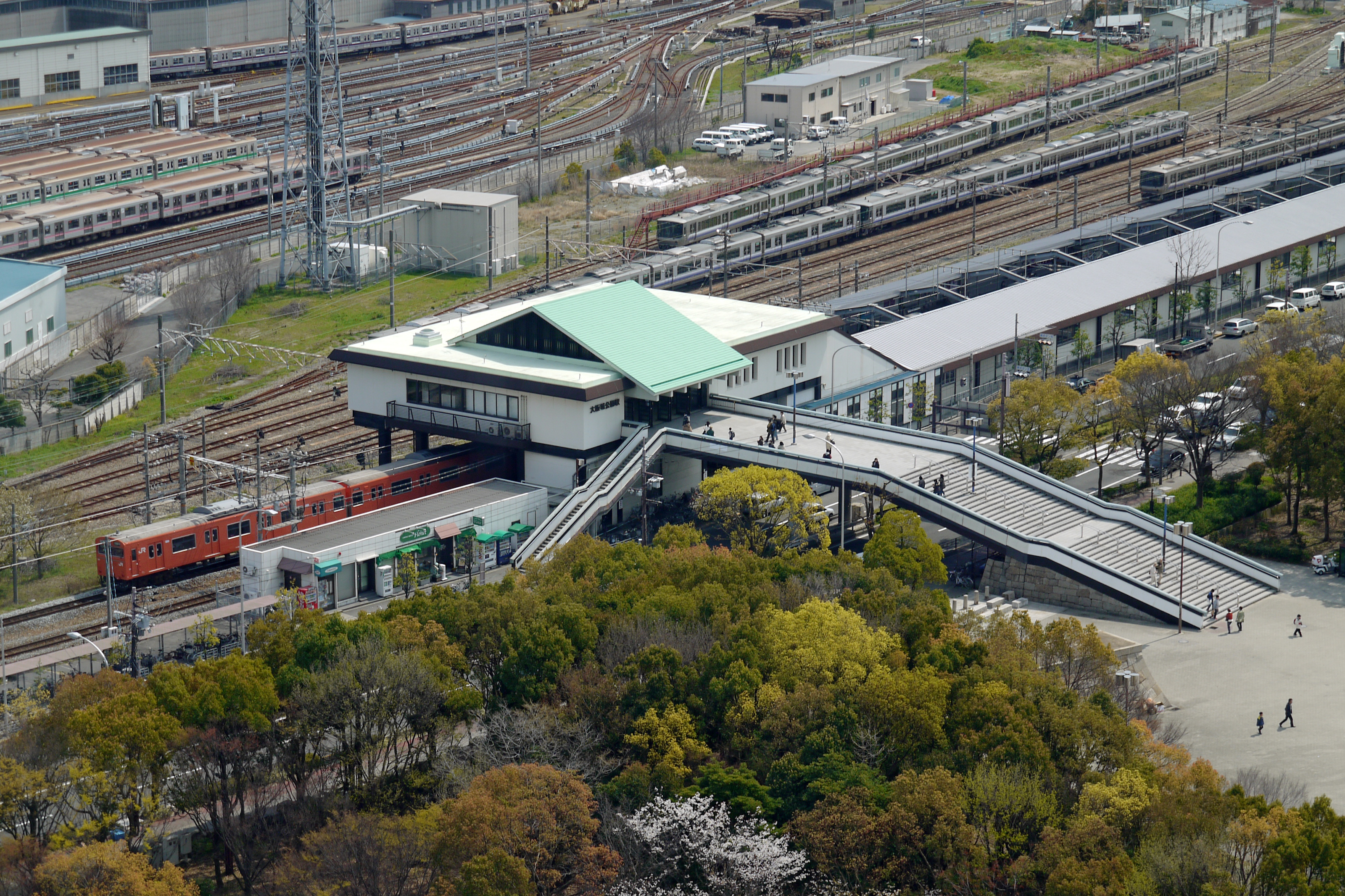 Ōsakajōkōen Station in Osaka, Osaka prefecture, Japan